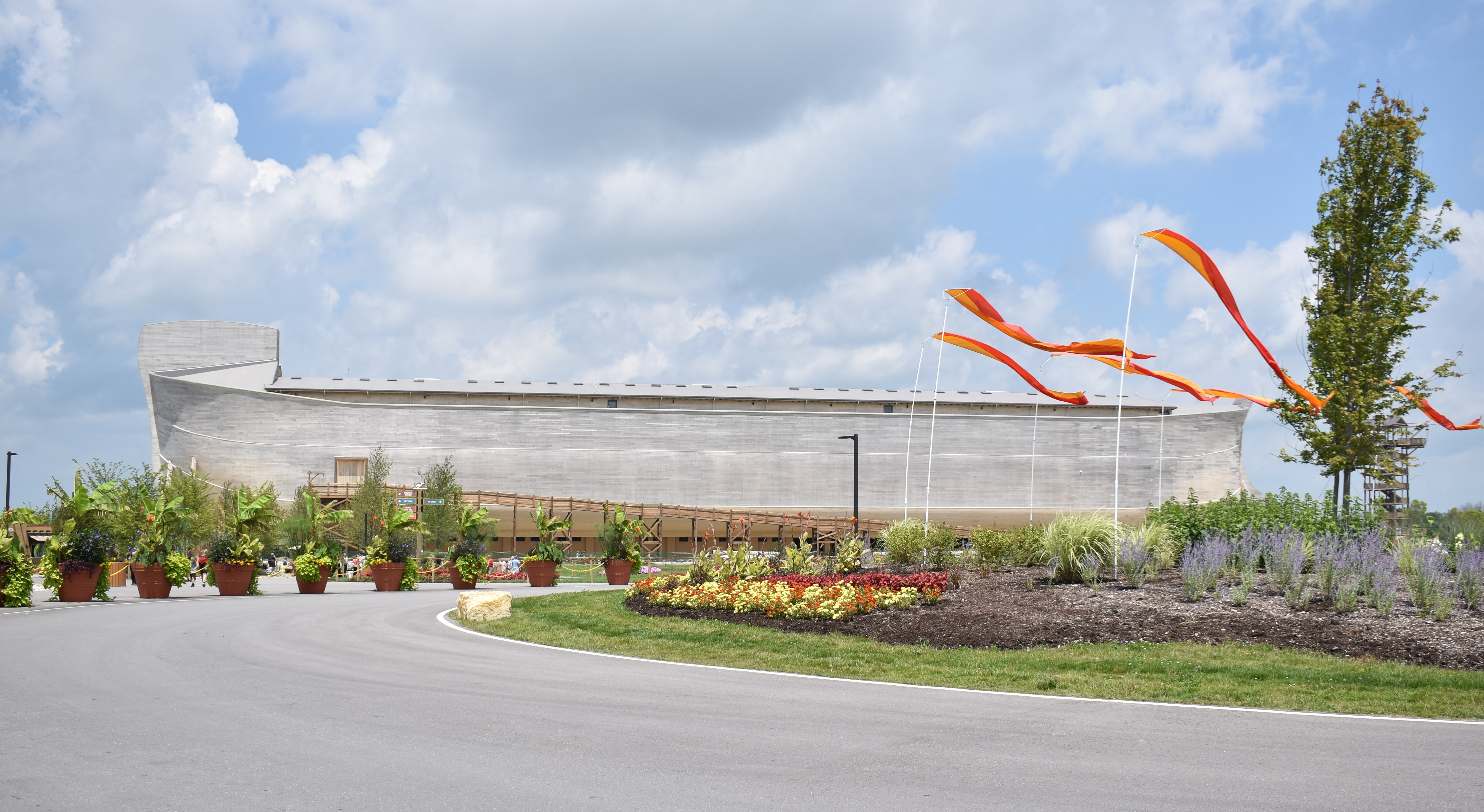 Exterior view of the Ark Encounter